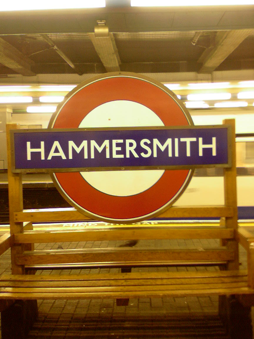 I took this picture myself.